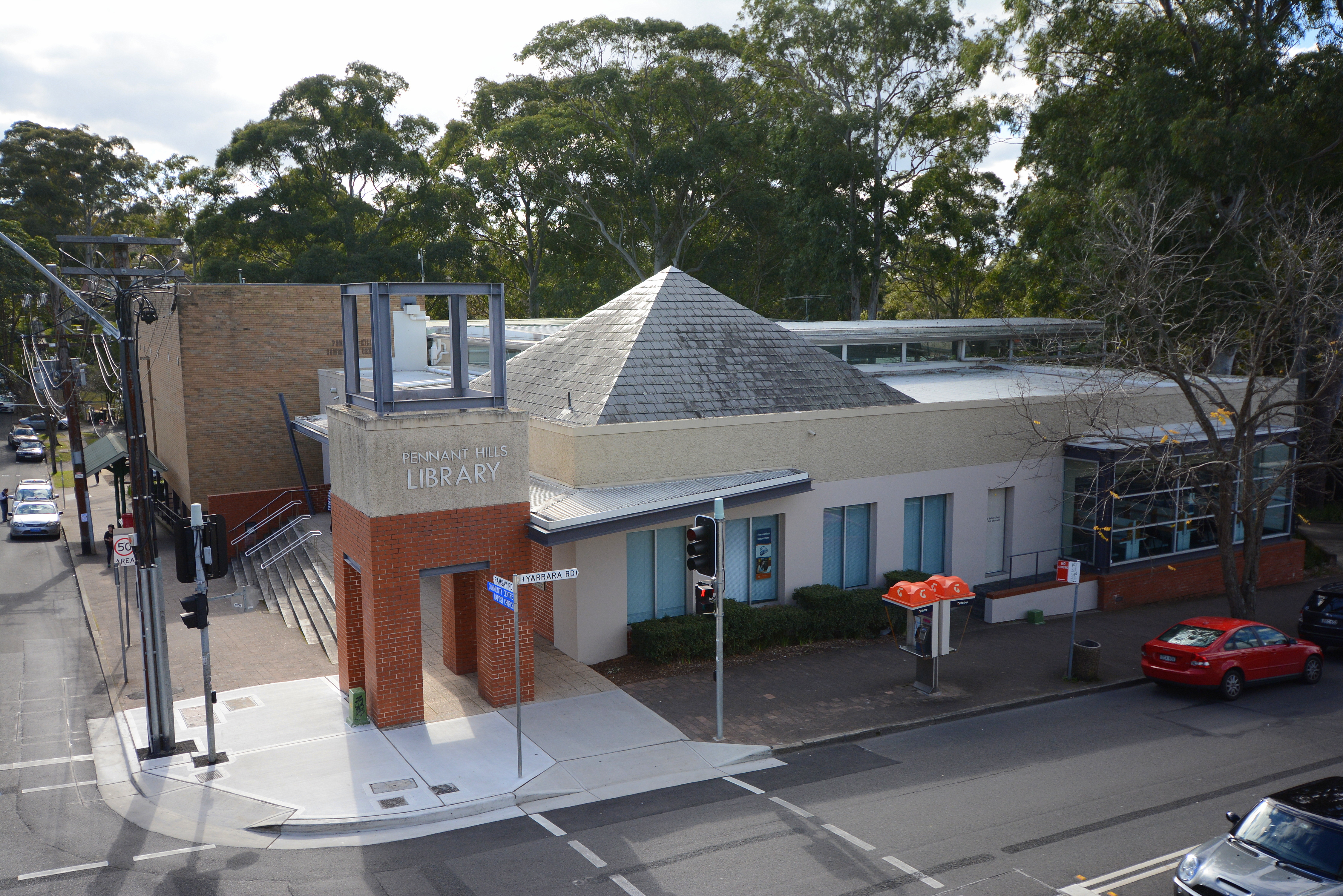 Public Library, Pennant Hills, Sydney